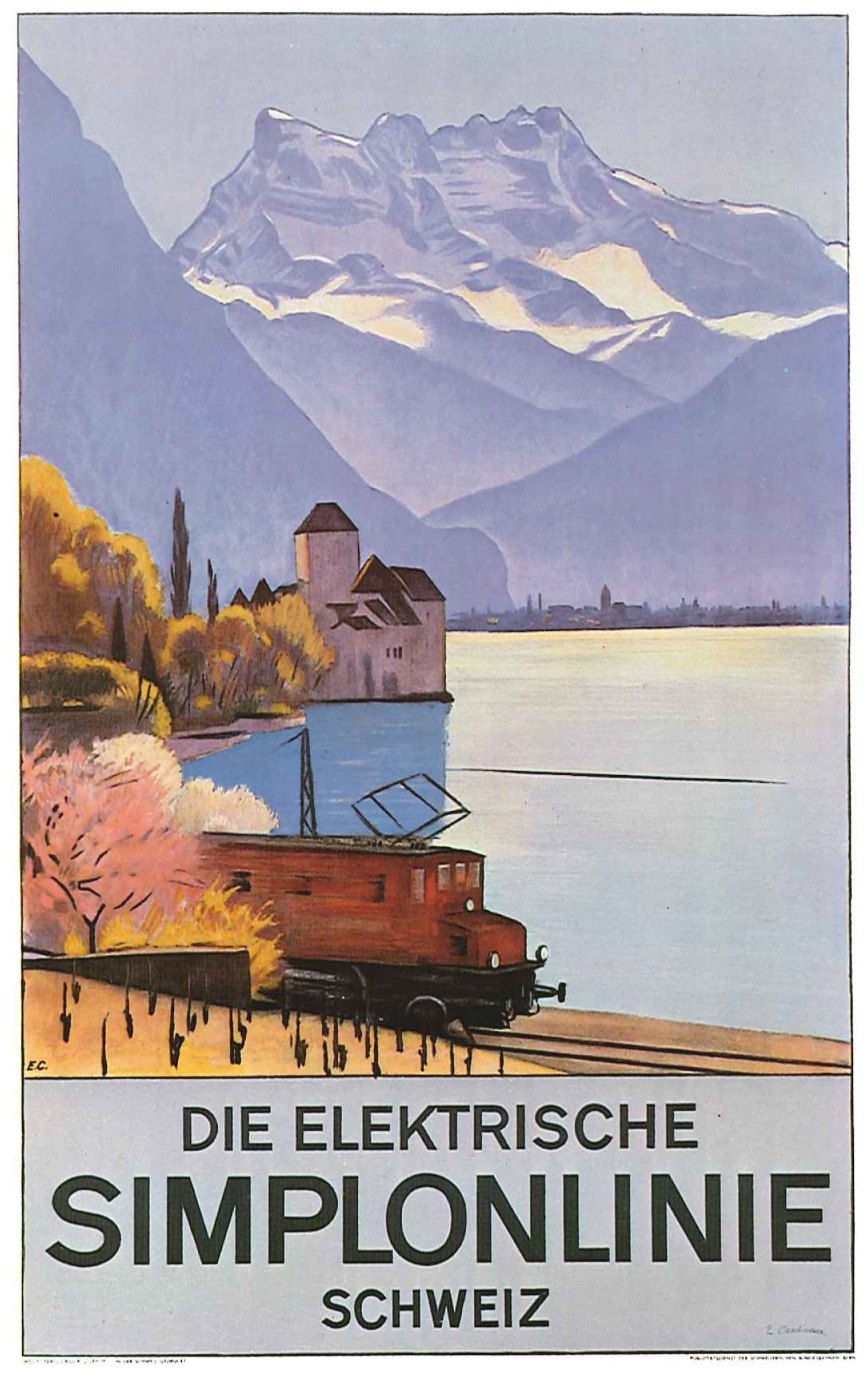 Poster advertising the Simplon railway link through Switzerland, 1928. Depicted is the Château de Chillon near Montreux.